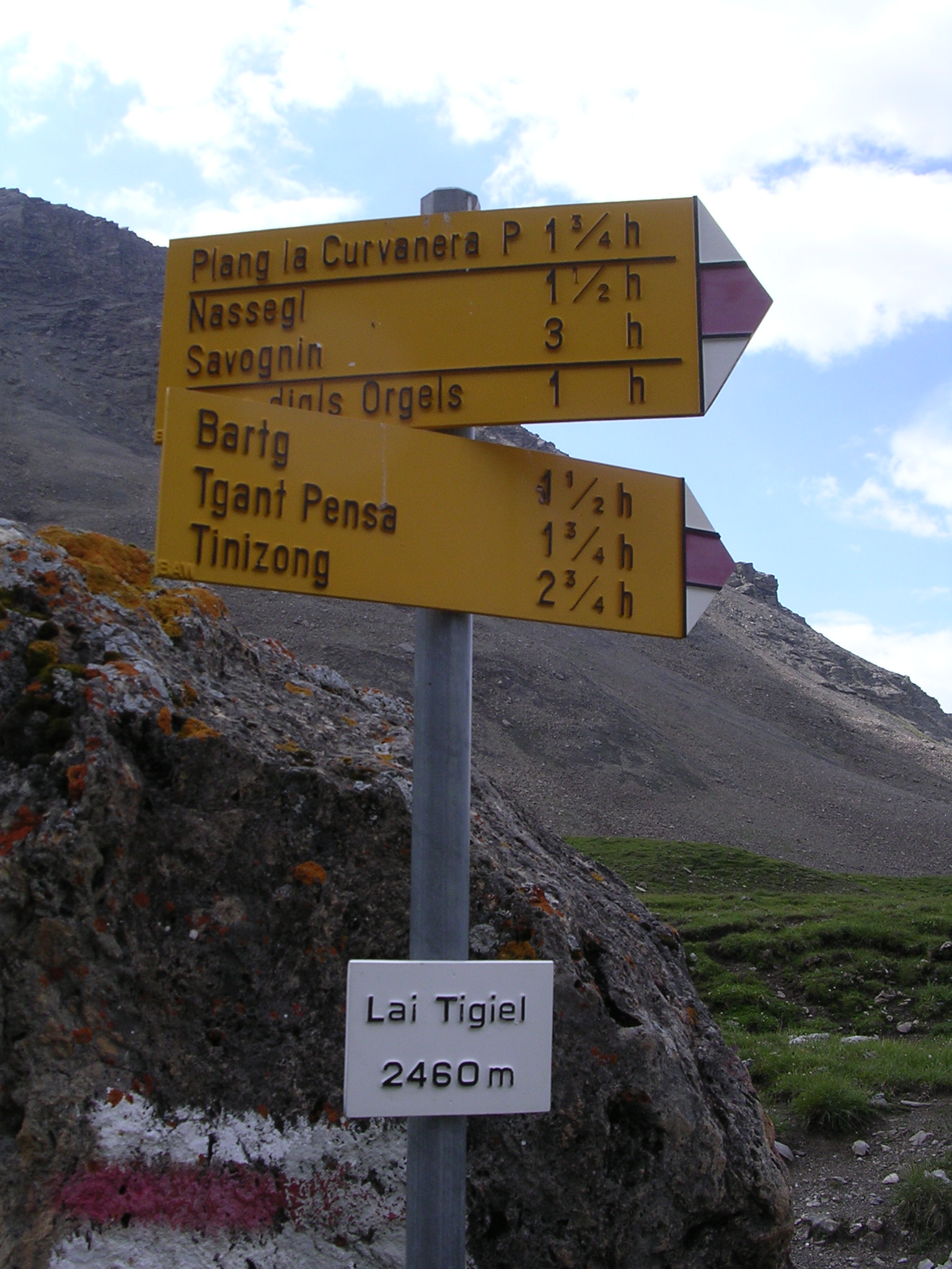 Fingerpost near Lai Tigiel, Tinizong-Rona, Grisons, Switzerland